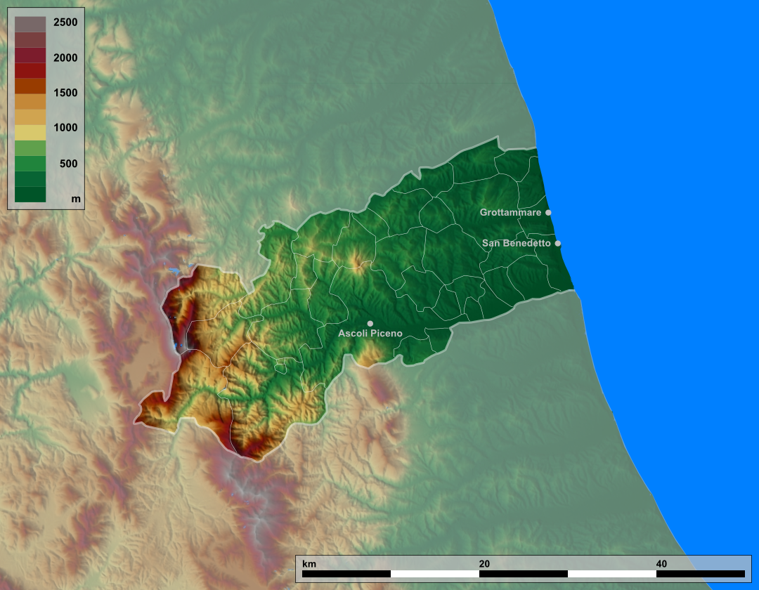 Map created with 3DEM from SRTM ( Administrative boundaries from OpenStreetMap.